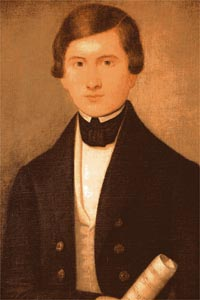 young man